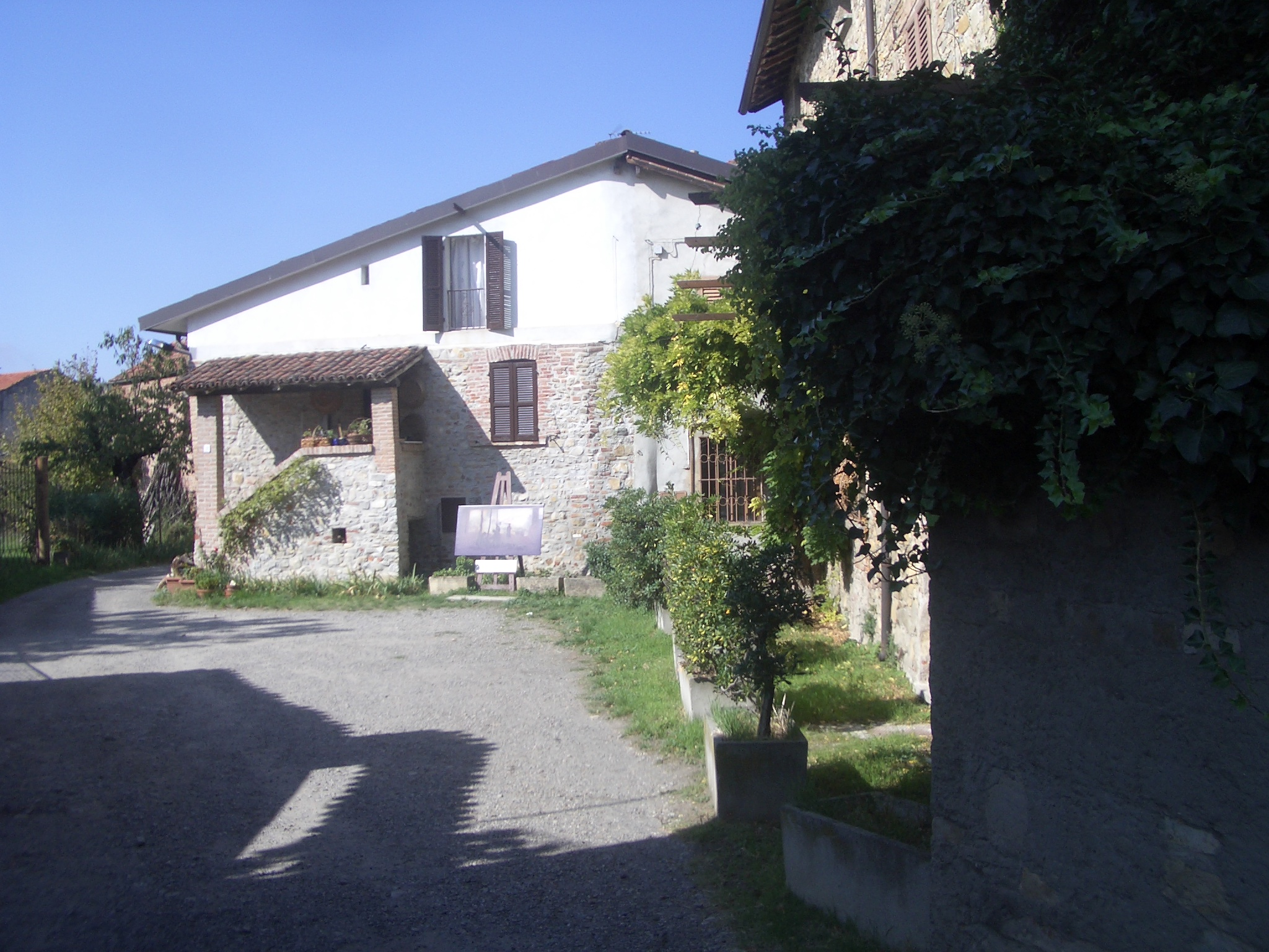 House and courtyard of the painter Pelizza da Volpedo, Volpedo, Alessandria, Italy